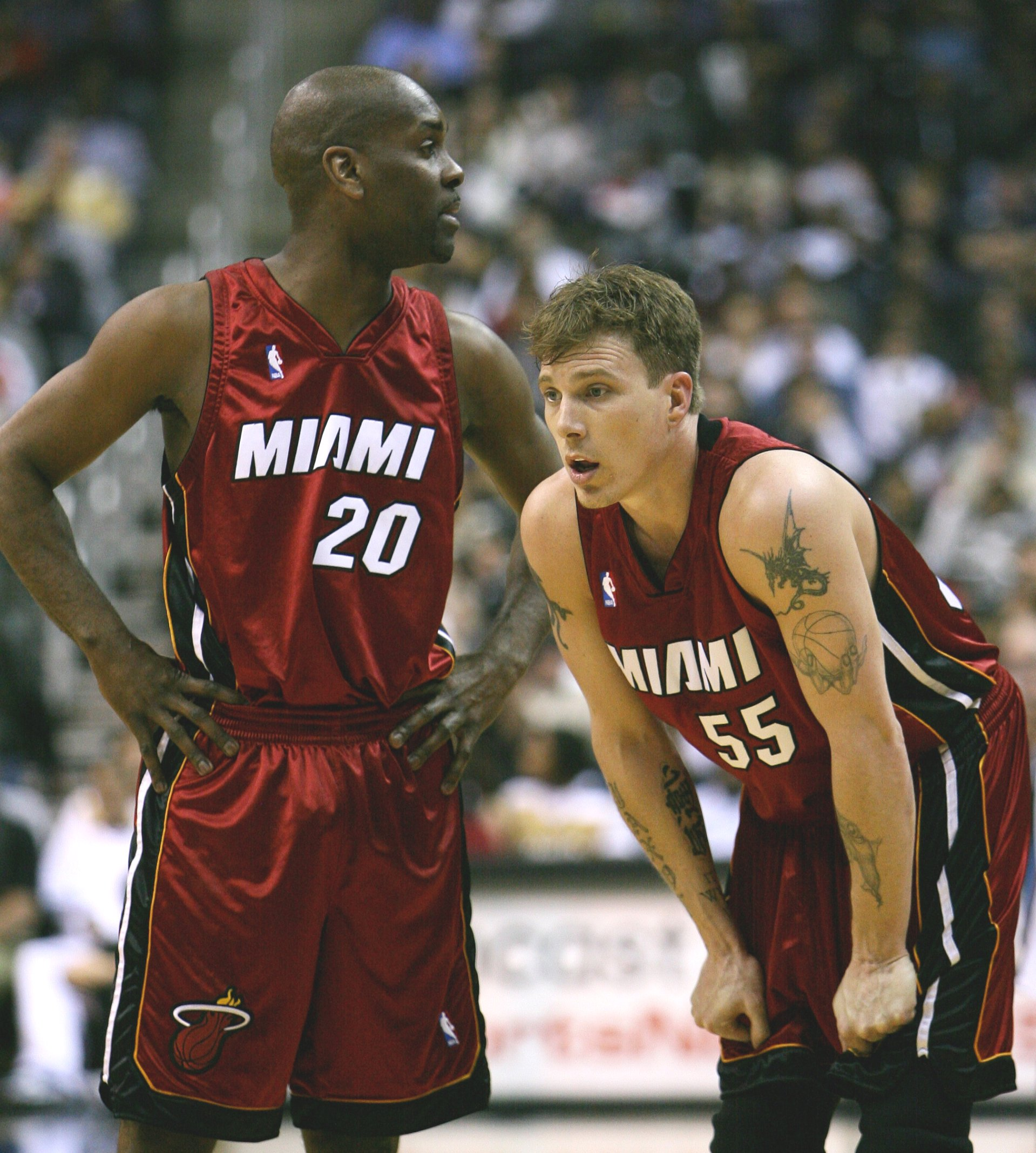 Gary Payton and Jason Williams played for the Miami Heat during their 2006 NBA Championship